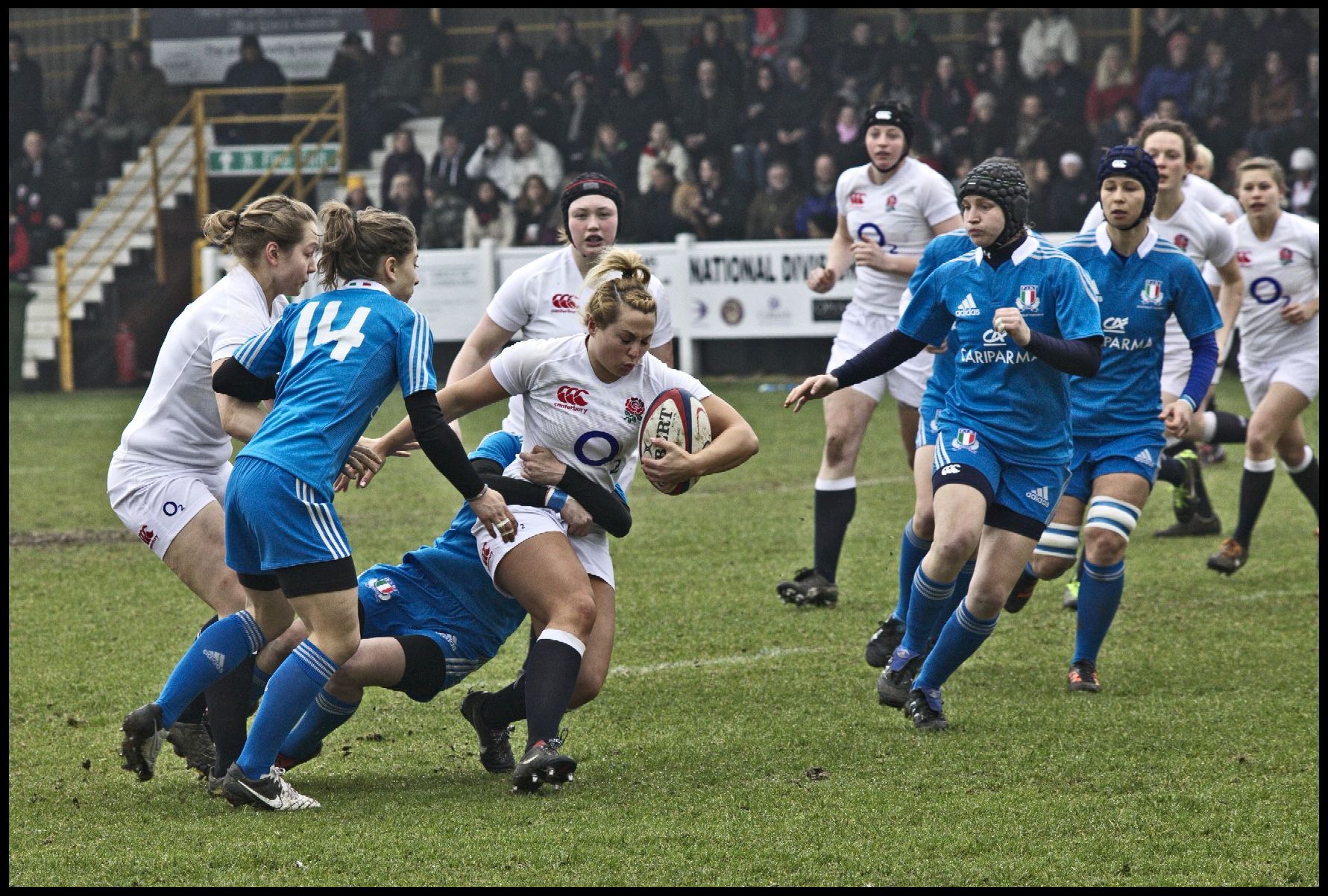 England won 34 : 0 this afternoon at Esher Rugby's Molesey Road ground. Vicky Fleetwood with ball, on the right Alice Trevisan and Cristina Molic